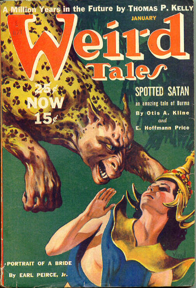 Cover of the pulp magazine Weird Tales (January 1940, vol. 35, no. 1) featuring Spotted Satan by Otis Adelbert Kline & E. Hoffmann Price. Cover art by Virgil Finlay.